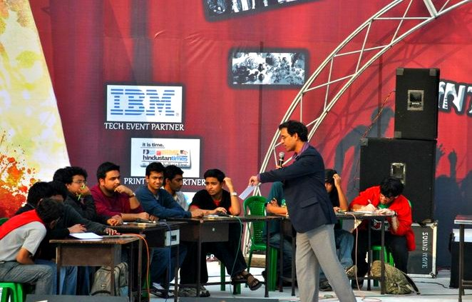 Prahelika 2011